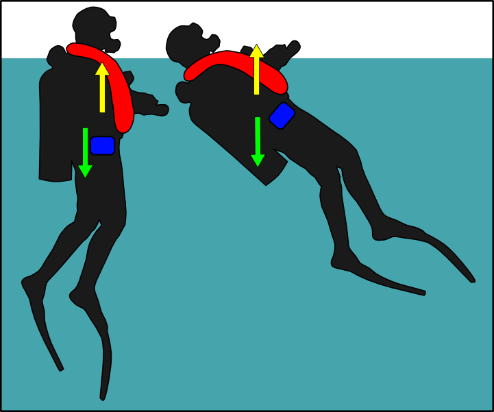 Diver with ABLJ stabilised at surface